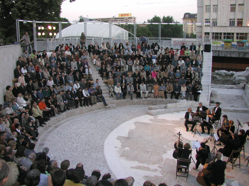 The Odeon of Plovdiv